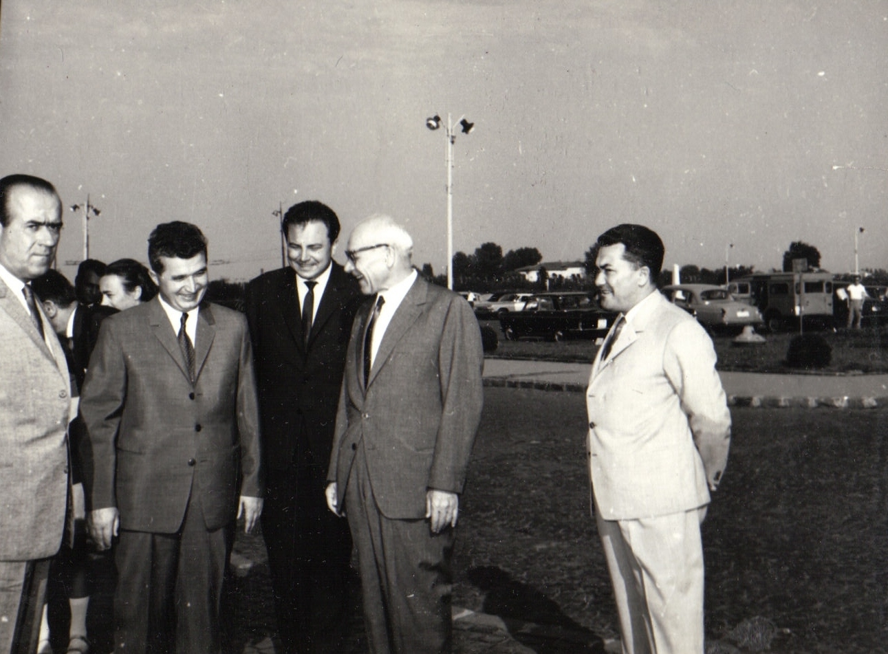 Nicolae Ceauşescu and Wladislaw Gomulka, first secretary of the Central Comittee of the Polish United Workers' Party, at the latter's departure from Romania after an official visit